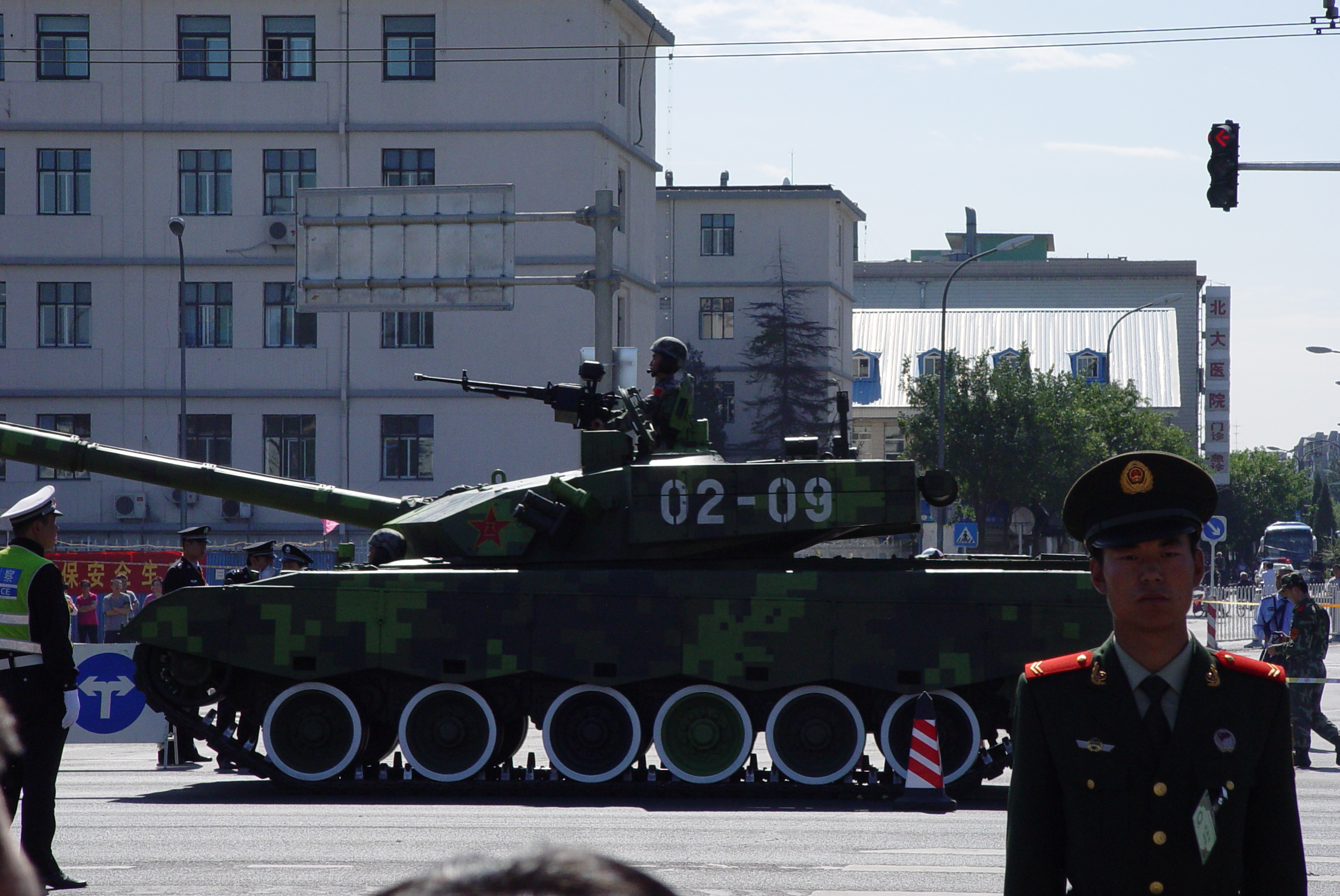 Side profile view of the Type 96A tank on the day of the 2009 China National Day Parade